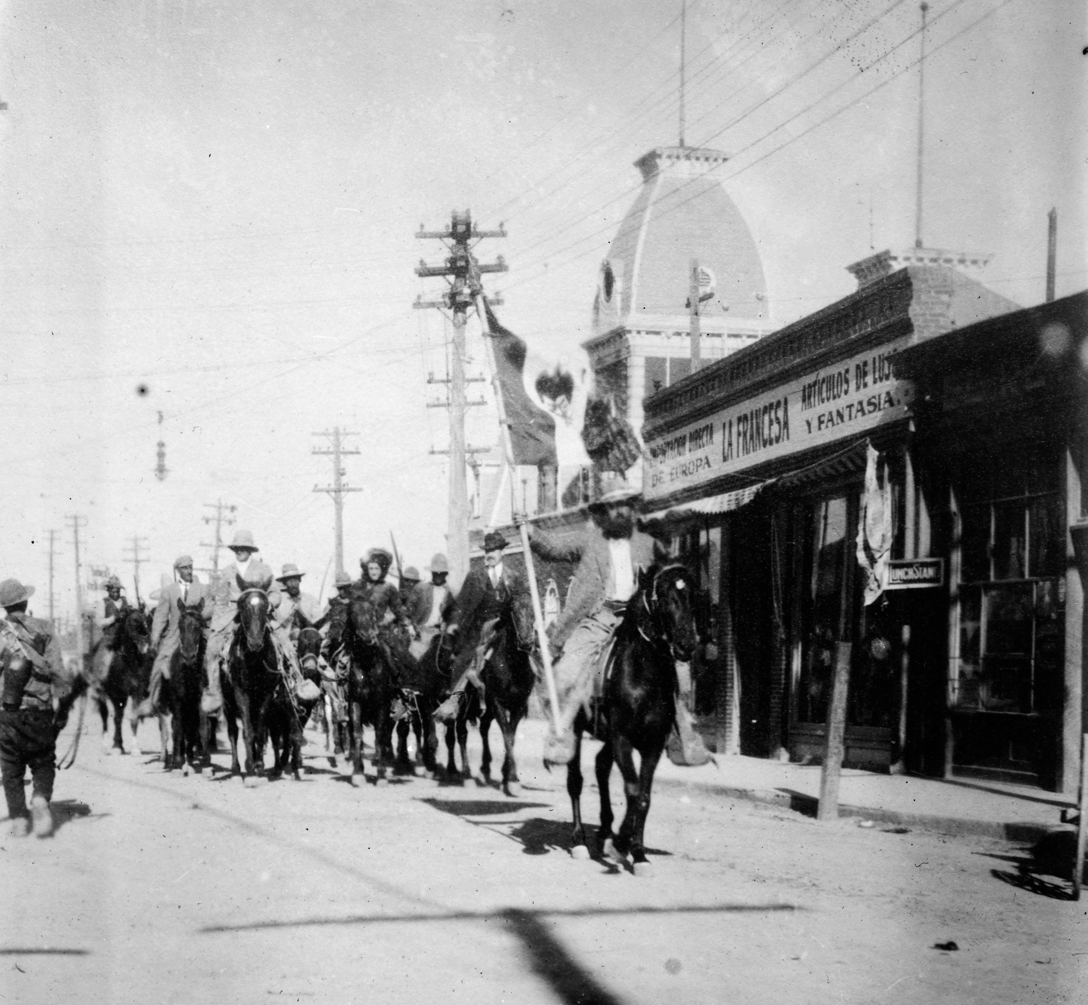 Revolutionists entering Juarez